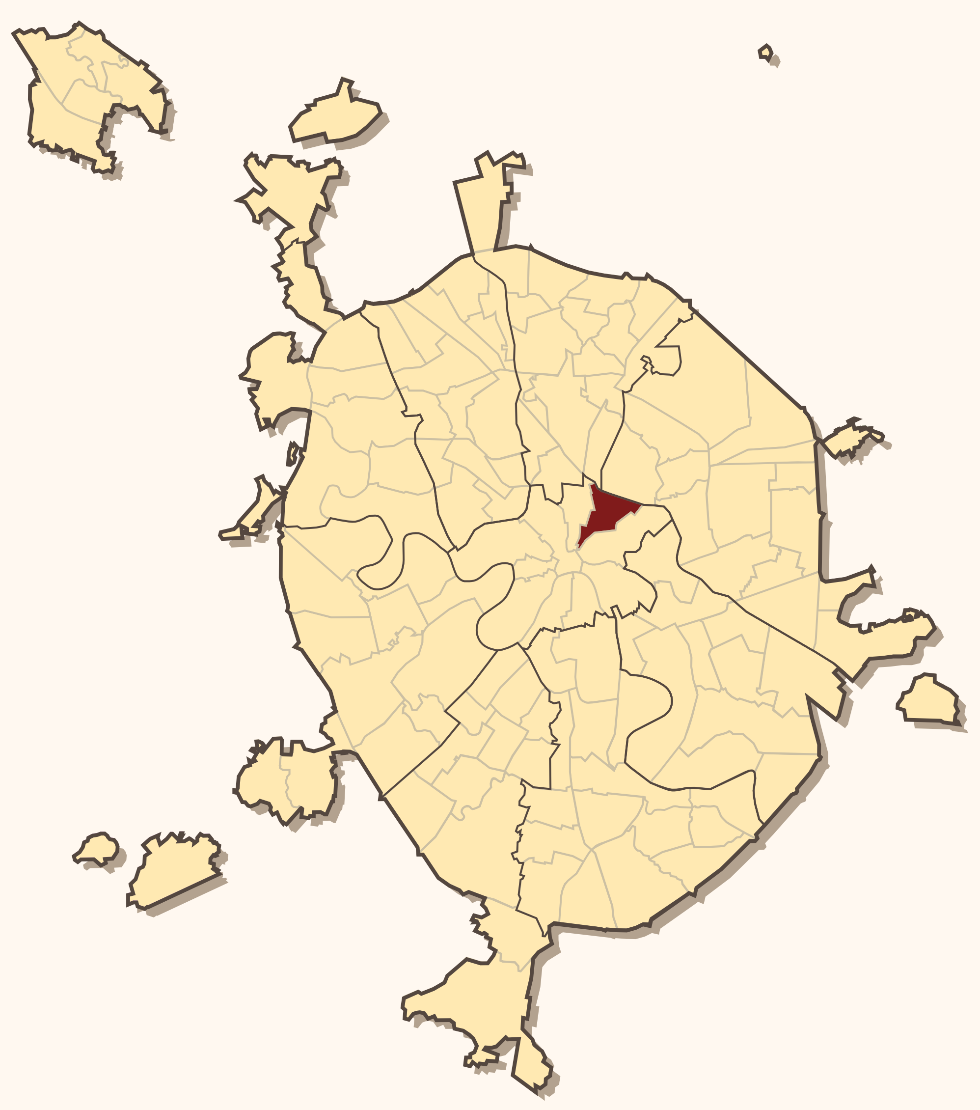 Moscow districts map